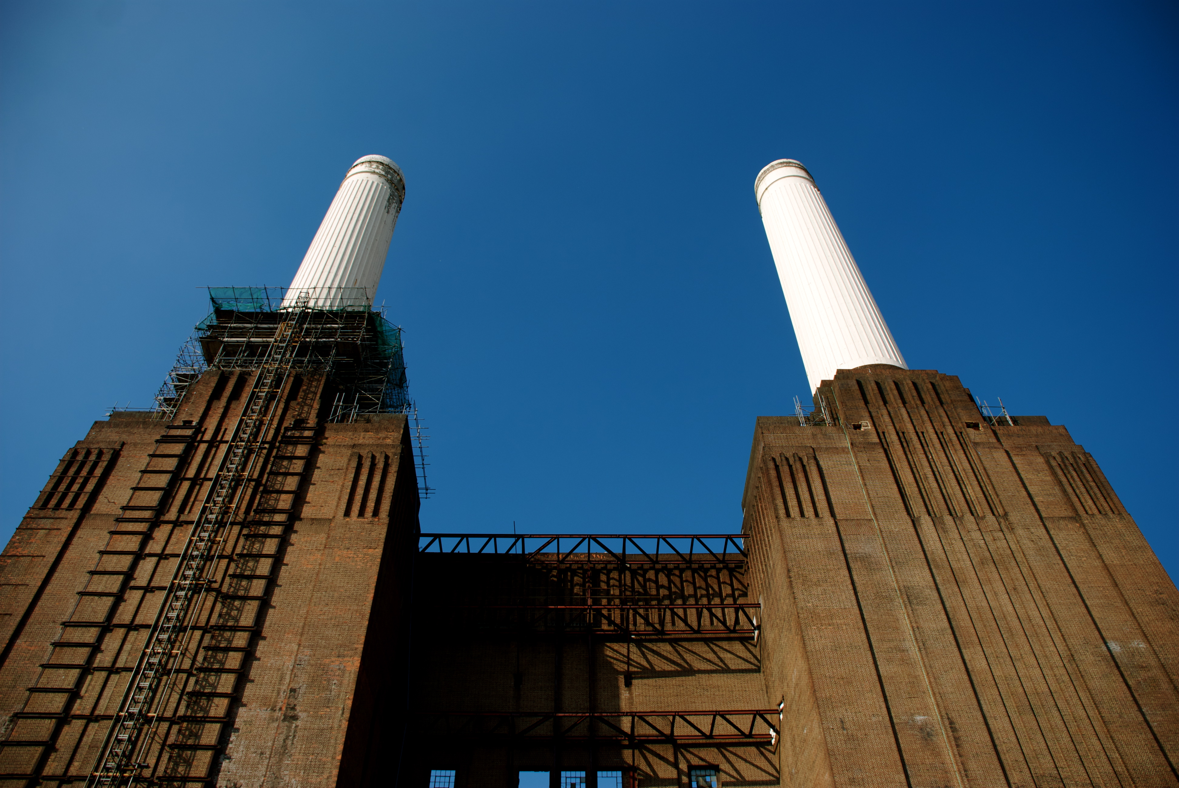 Battersea Power Station in London